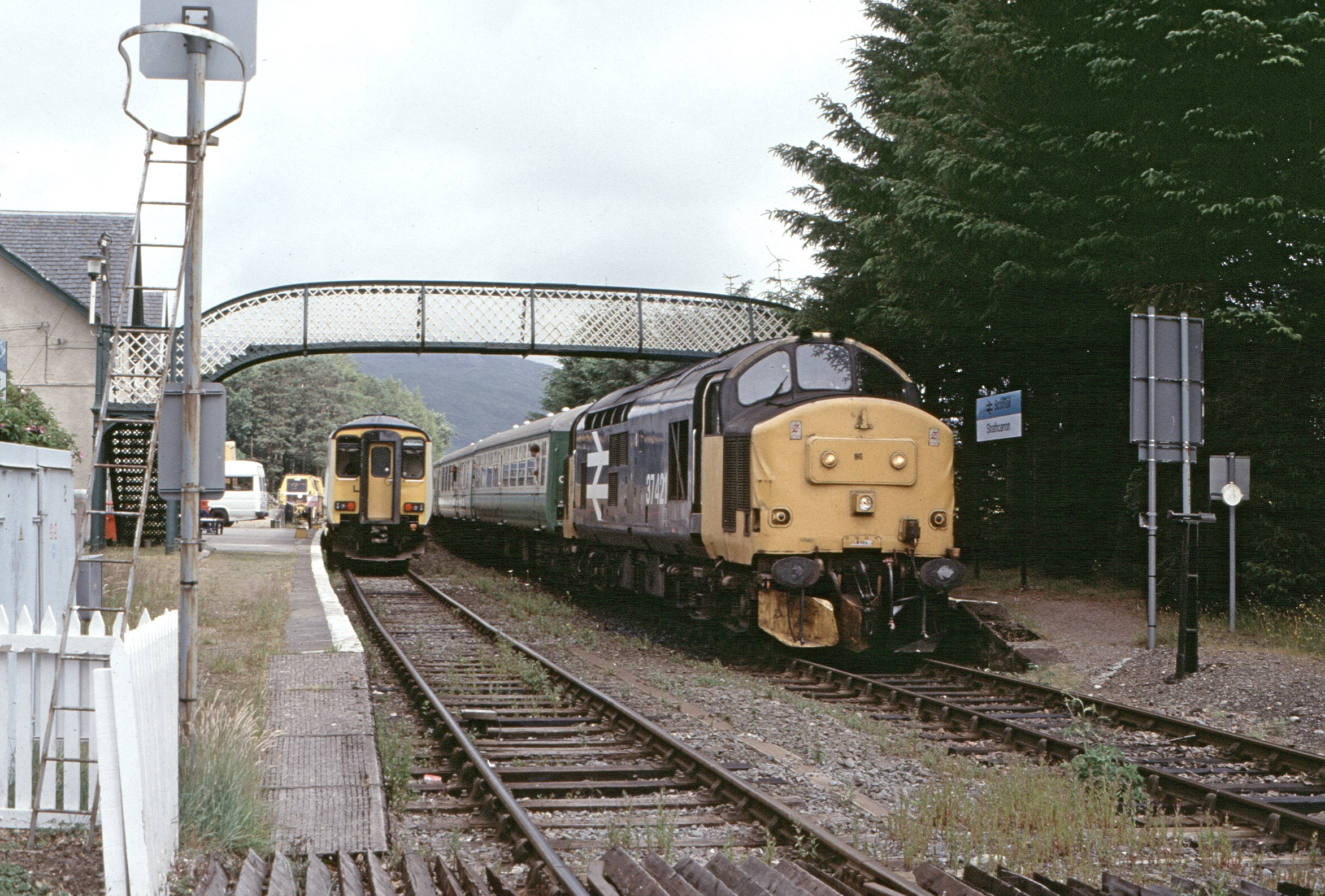 Strathcarron station